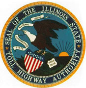 Seal of the Illinois State Toll Highway Authority Seal of the Illinois State Toll Highway Authority. The original is available at